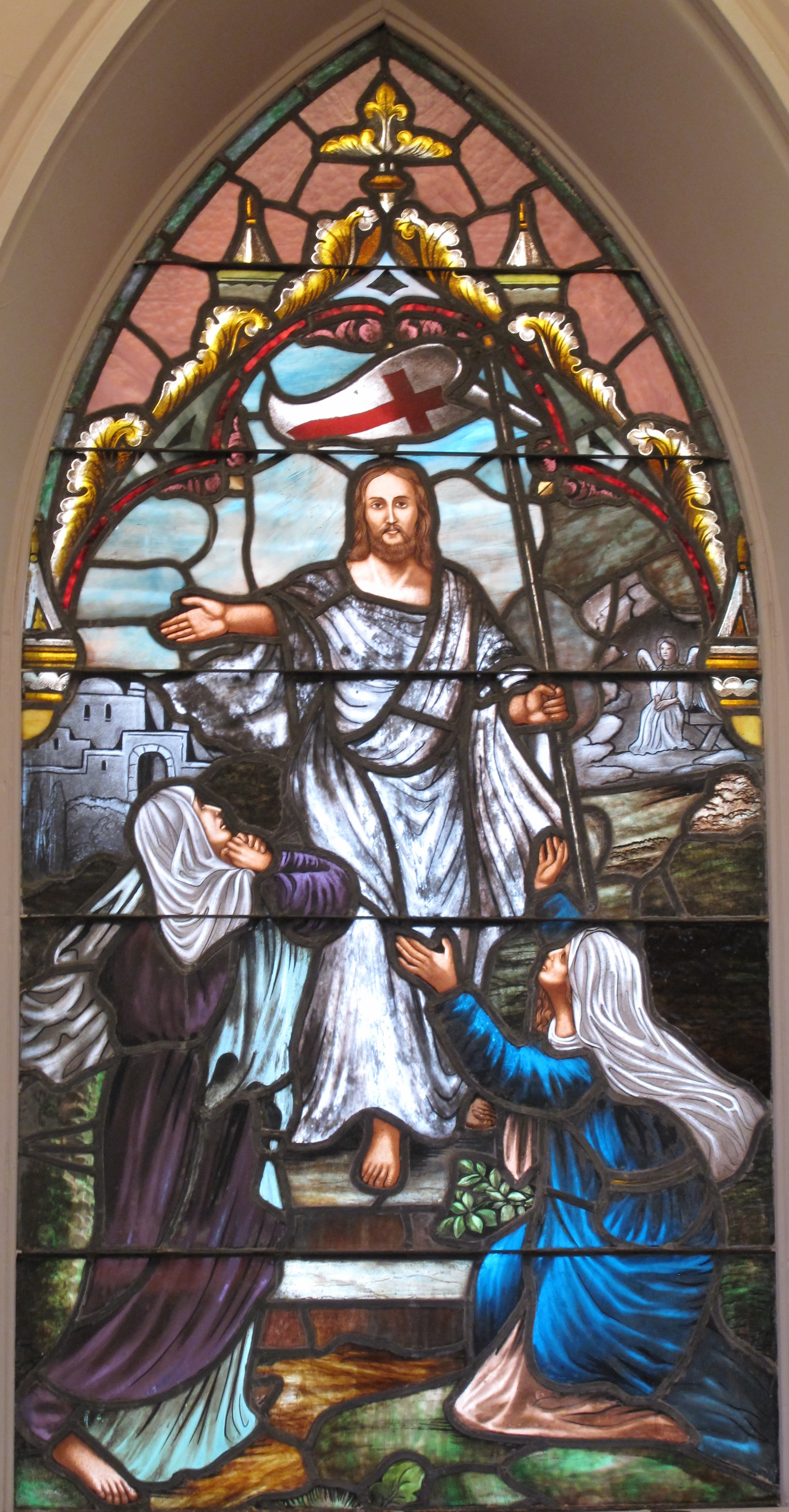 The Resurrected Jesus and the Two Marys window in St. Matthew's Lutheran Church, Charleston, South Carolina. Attributed to the Quaker City Glass Company of Philadelphia, 1912.